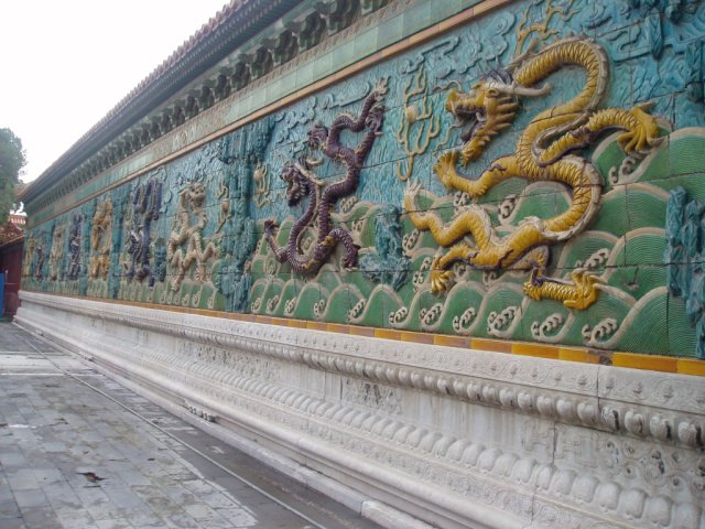 The Wall of Nine Dragons, which can be found inside the Forbidden City in Beijing, China.